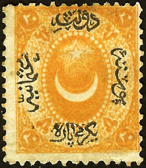 A 20 para stamp of Ottoman Empire, Duloz issue, 1865.